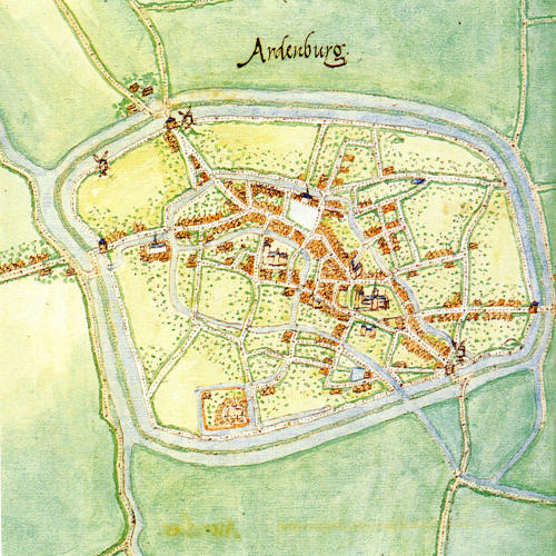 Map of the city of Aardenburg